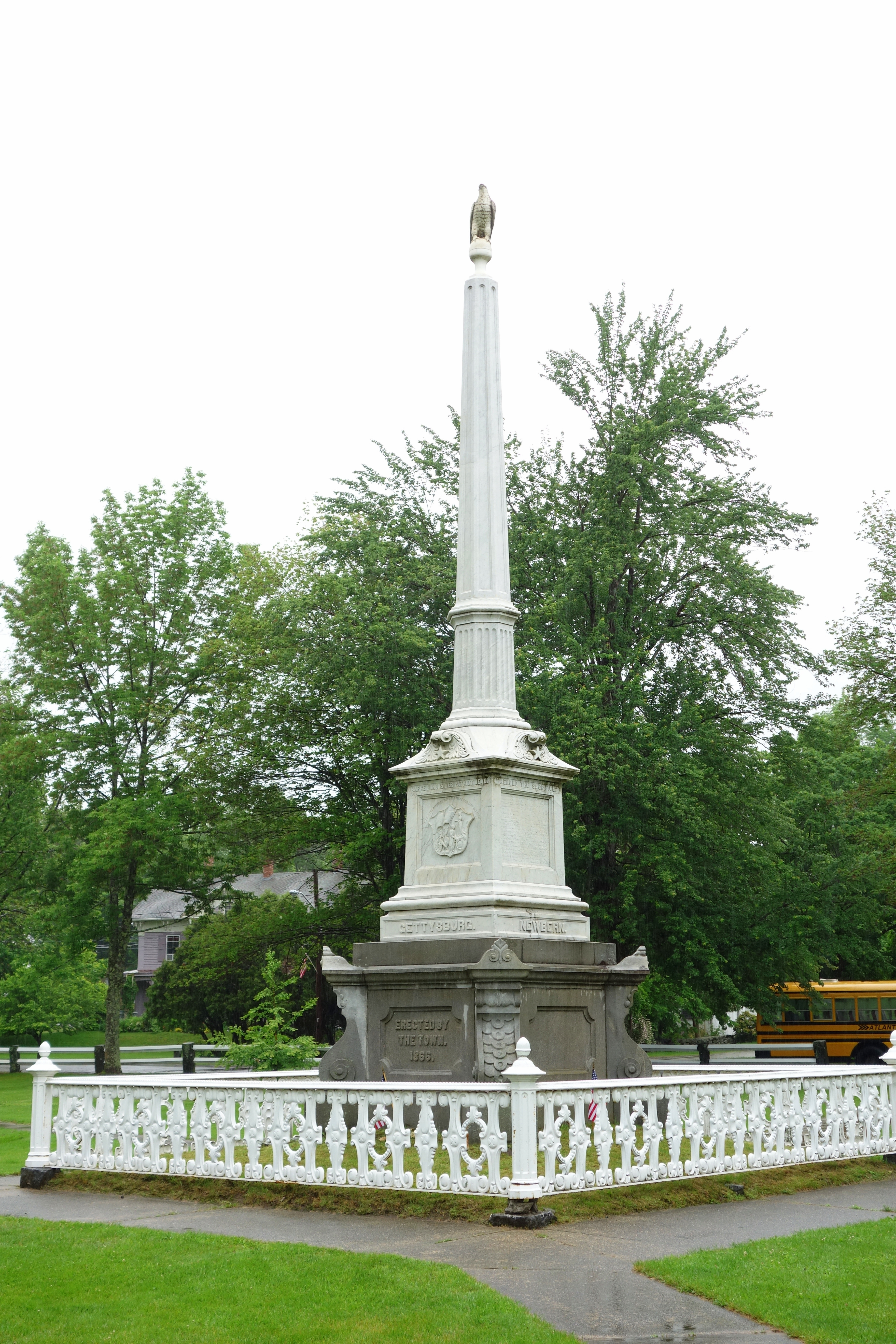 Barre Civil War Monument - Barre, Massachusetts, USA. Installed 1866. Sculptor unknown. Smithsonian Control Number: IAS 77000015. Inscription: (On south side of monument:) "JOY FOR THE RETURNED; TEARS FOR THOSE THAT COME NOT AGAIN" (On lower south side of monument:) GETTYSBURG (On west side of monument:) "GUARD IT SACREDLY"/ANTIETAM (On north side of monument:) "THE UNION LIVES"/FORT HUDSON (On east side of monument:) "BEHOLD THE SACRIFICE"/NEWBERN (On south side of base:) ERECTED BY THE TOWN/1866 unsigned. This monument was originally erected in Haverhill, Massachusetts as a monument to Hannah Duston. (When her home was attacked by Native Americans, Hanna Duston and a friend were captured while Mr. Duston and their twelve children got away safely. Some weeks later Hannah and her friend were able to escape by killing ten of their captors.) In 1855 the Duston Monument Association was formed to solicit funds to erect a monument on the site of the Duston home; however, a dispute as to whether the site acquired was actually where the Duston home stood led contributors to withdraw their support. When litigation followed, the monument was sold to a Woburn man. Later the monument's inscription to Duston was removed and the monument was eventually sold to the Town of Barre for $6,000 in Oct. 1865. For additional information the Barre Gazette, Nov. 17, 1866 and the files of the Barre Historical Society. IAS files contain a copy of the Massachusetts Historical Commission Form C - Monuments questionnaire dated Oct. 13, 1972. This artwork is in the public domain because the artist(s) died more than 70 years ago.